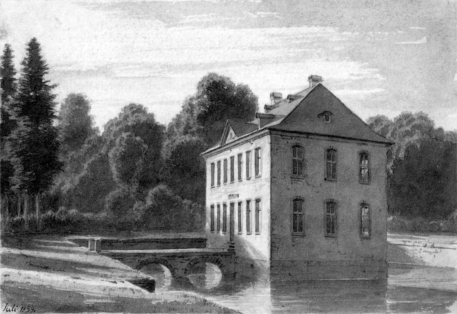 Originally coloured watercolour by Carl Theodor Reiffenstein which shows the complex in a fictious state after its baroquisation in 1734 and before the changes as of 1839. For this purpose Reiffenstein probably drew from his early childhood memories.